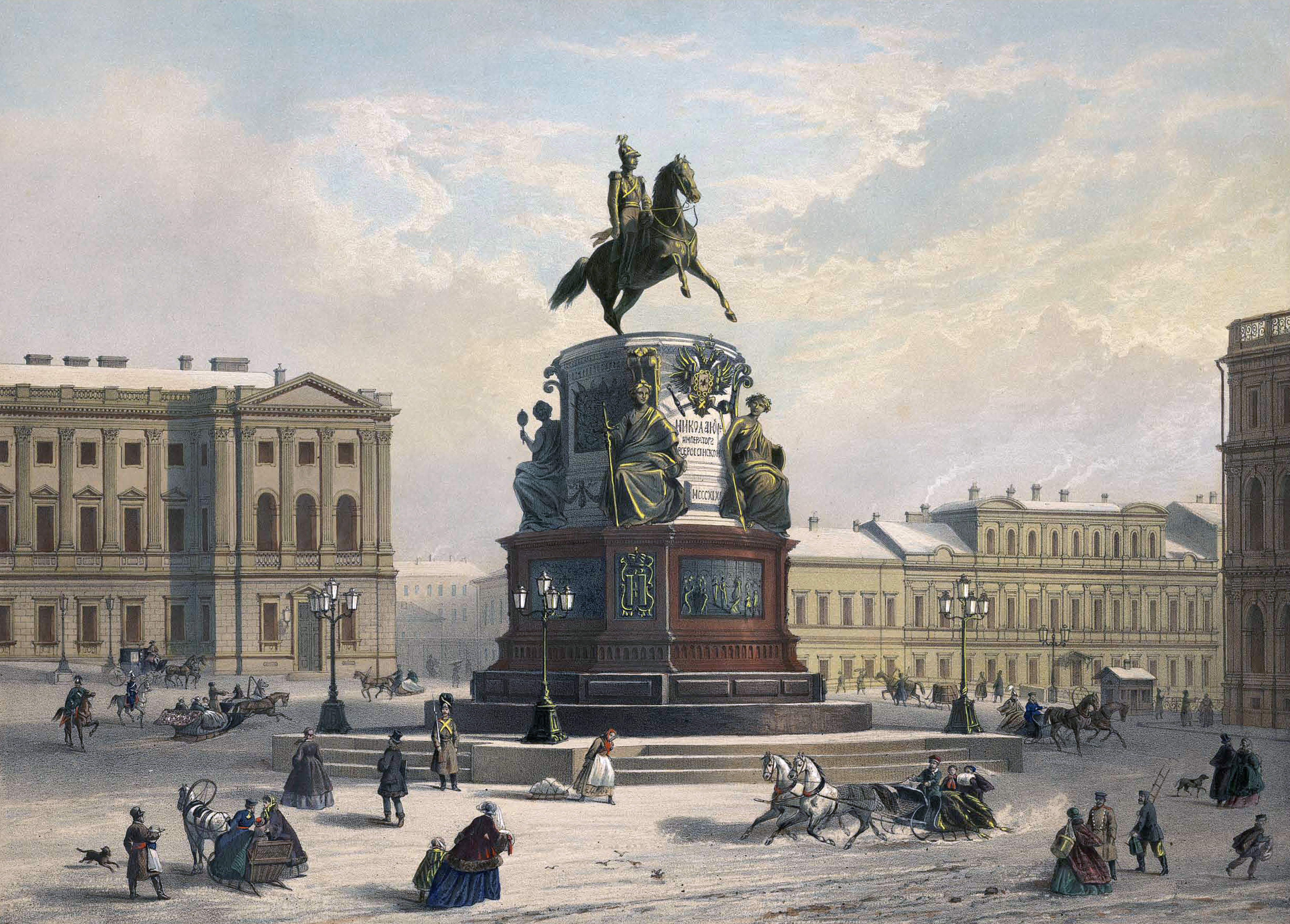 The monument to Nicholas I of Russia in St. Petersburg in the 19th century lithograph after a drawing by Charlemagne